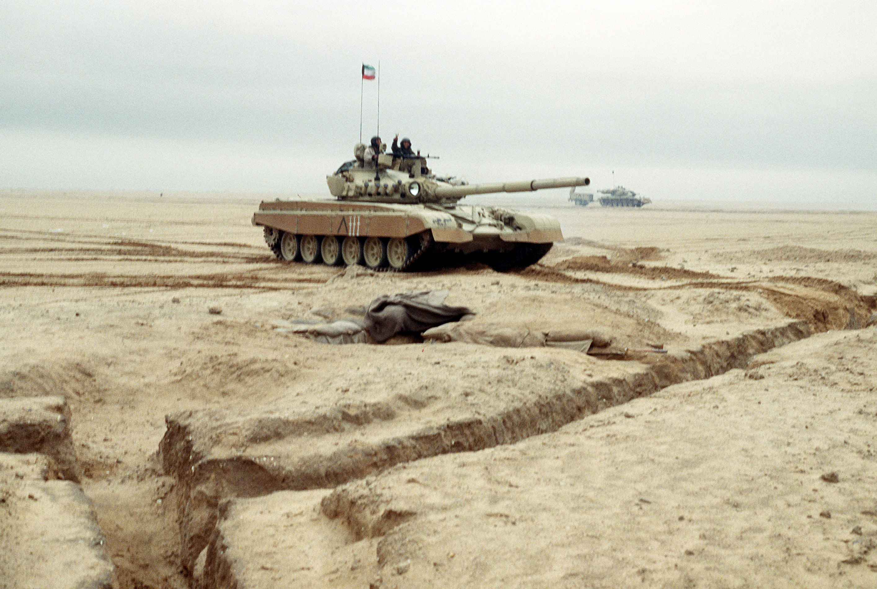 A Kuwaiti flag flies from an M-84 main battle tank as a soldier gives a victory sign as the tank is driven along a channel cleared of mines during Operation Desert Storm. علم الكويت يرفرف على دبابة إم-84 ويعطي الجندي إشارة النصر خلال عبور دبابته القناة التي تم تطهيرها من الألغام خلال عملية عاصفة الصحراء.